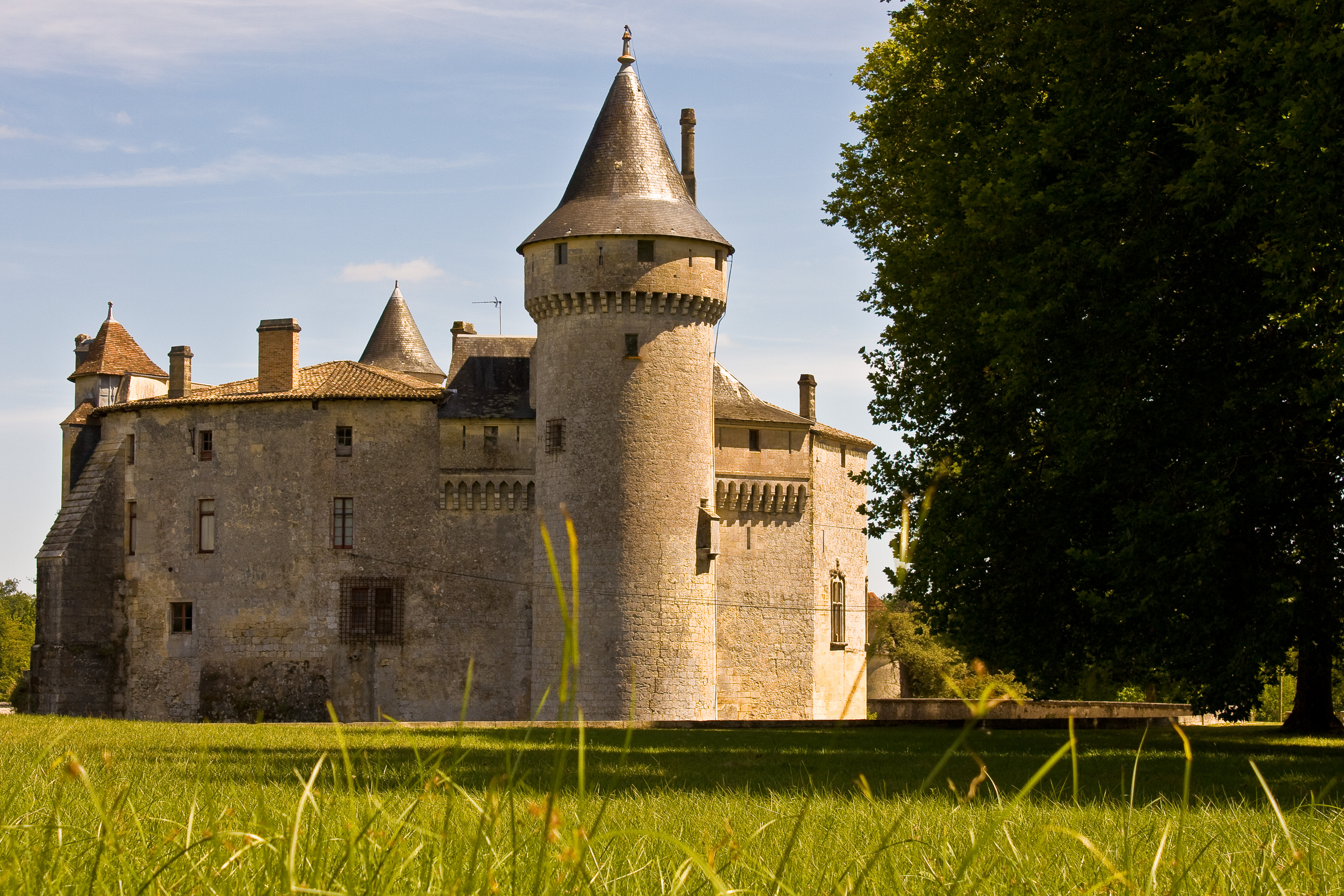 Château de La Brède, western aspect